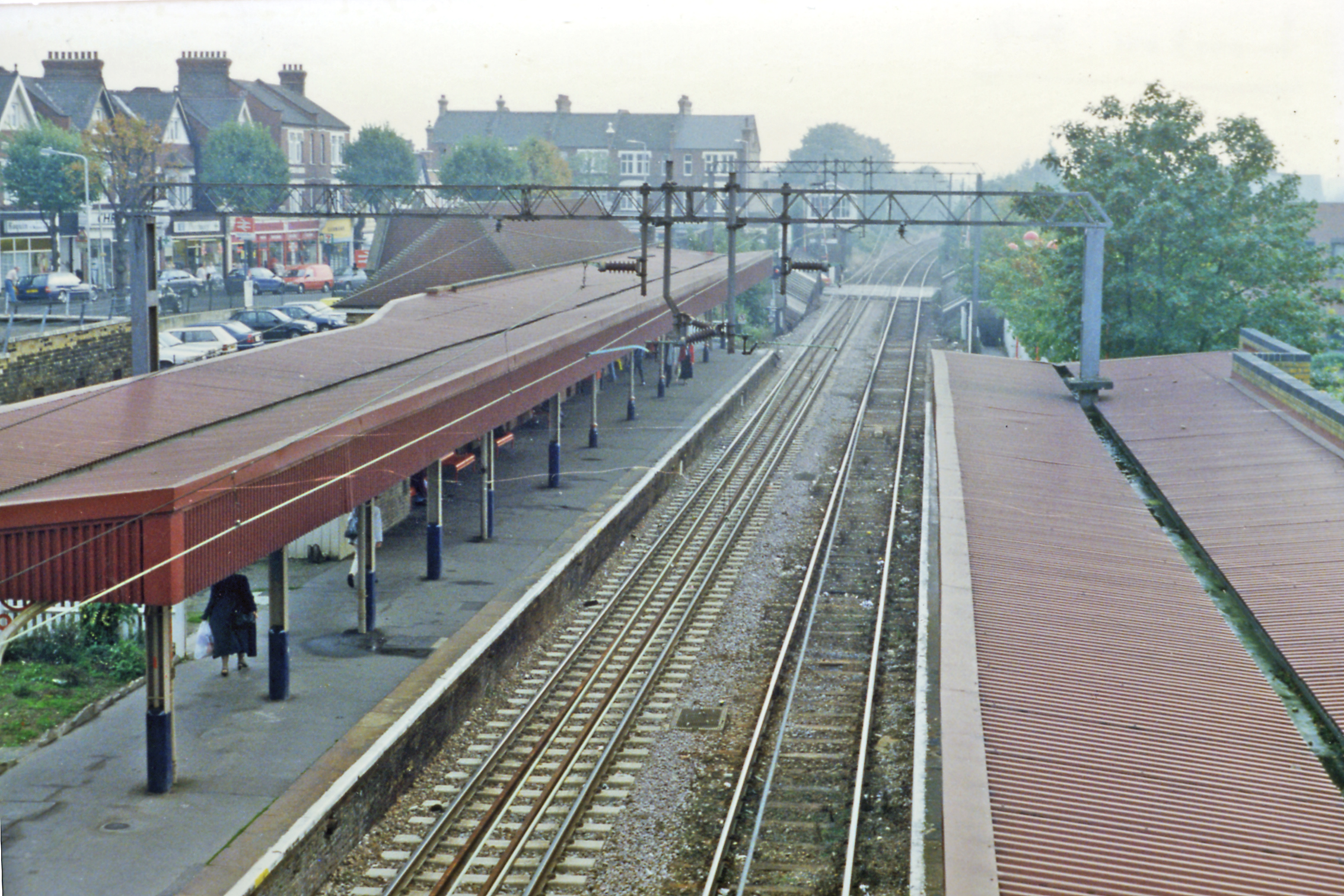 Highams Park station. View southward, towards Walthamstow and London Liverpool Street: ex-GER Liverpool Street - Hackney Downs - Chingford line, electrified in 11/60. ('and Hale End' until 2/69).